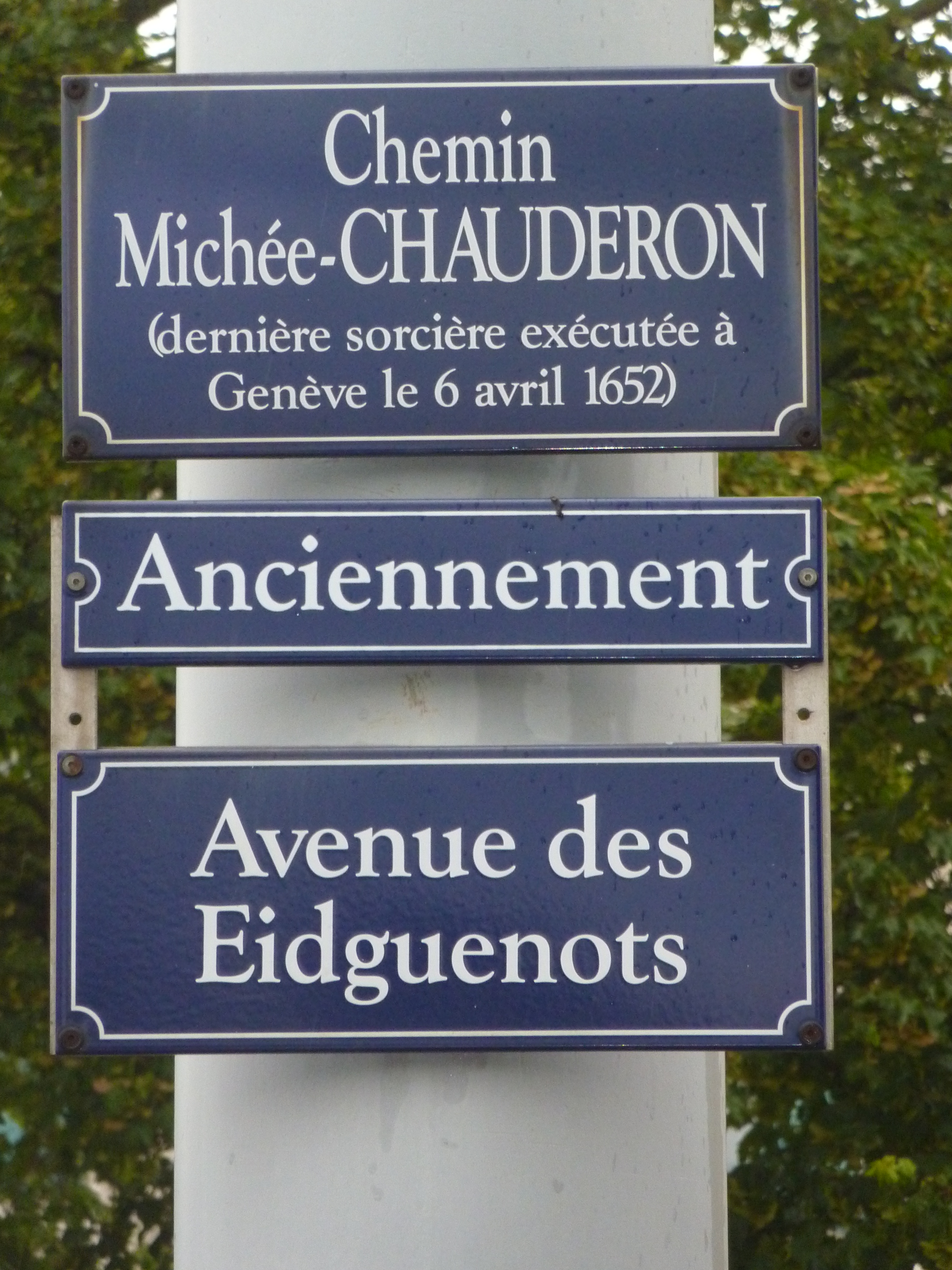 Michée Chauderon path in Geneva. Object location46° 12′ 17.87″ N, 6° 06′ 48.64″ E